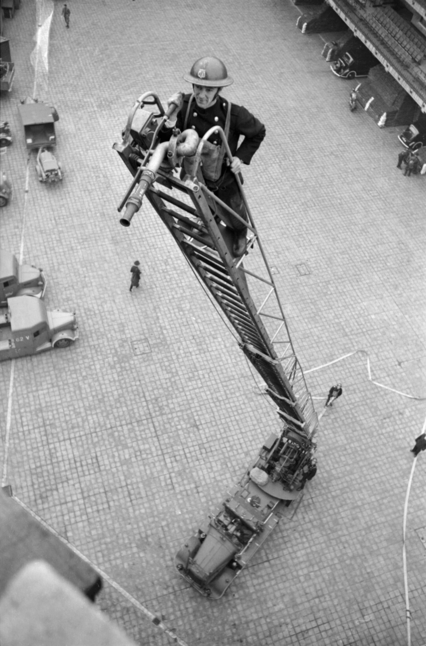 Members of the Auxiliary Fire Service training at London Fire Brigade Headquarters in 1940. A member of the Auxiliary Fire Service stands at the top of a partly-extended turntable ladder during a training exercise at London Fire Brigade Headquarters.